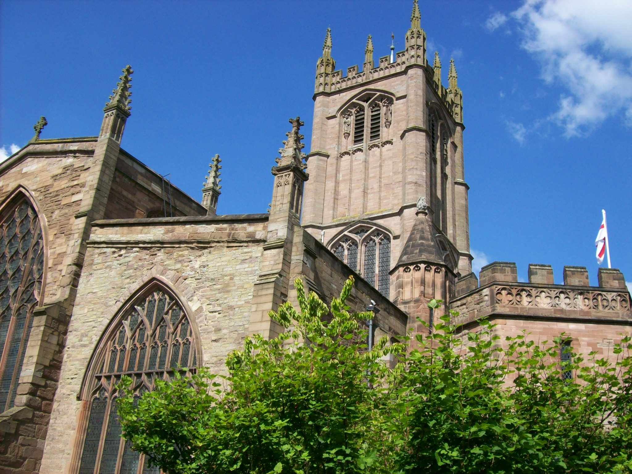 St. Lawrence Ludlow, from west